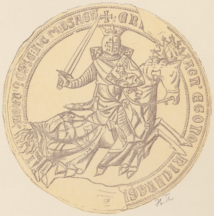 Seal (reverse) of King Eric II Magnusson of Norway, based on fourteen documents, dated 1289–98. Text: "✠ ERI[cvs m]AGNvs EGO NO//RICA REGN[a rego] SIT//// ORDinan Cia NOstra : Per TE : IVSTA DevS AGNvs". Size: 105 mm.